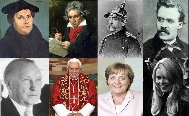 Third attempt, this time it has women and has more living Germans.